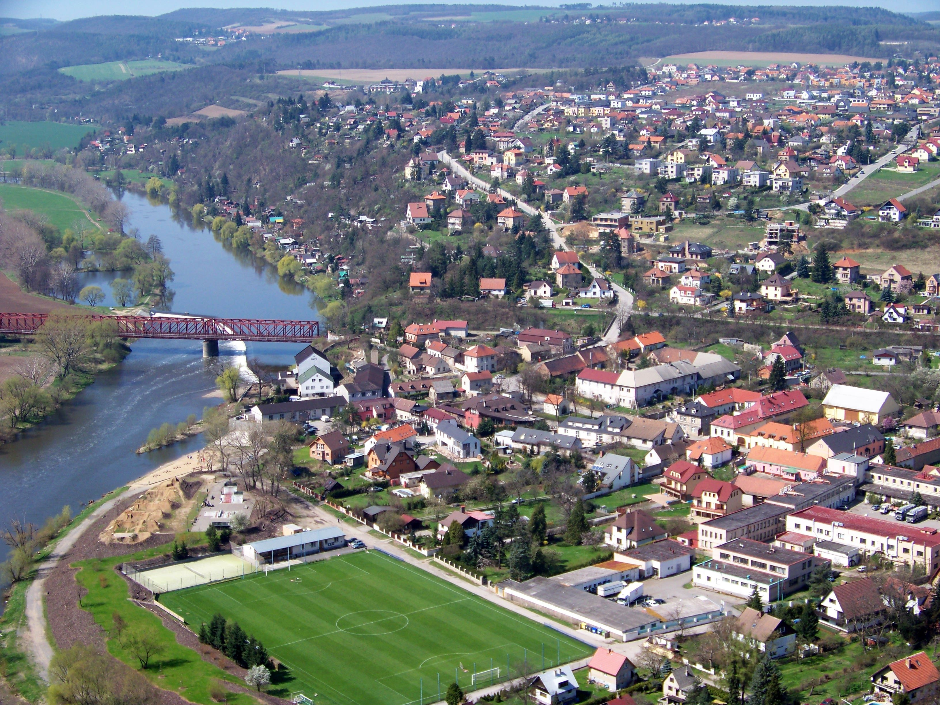 A view of Černošice-Dolní Mokropsy and Černošice-Stará Vráž from Hladká skála (Smooth Rock), Jíloviště, Prague-West District, Central Bohemian Region, the Czech Republic.